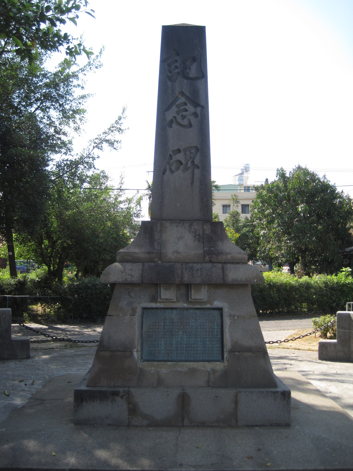 Iida Toyoji Memorial Monument